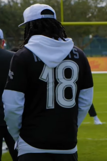 Andre Roberts in 2020